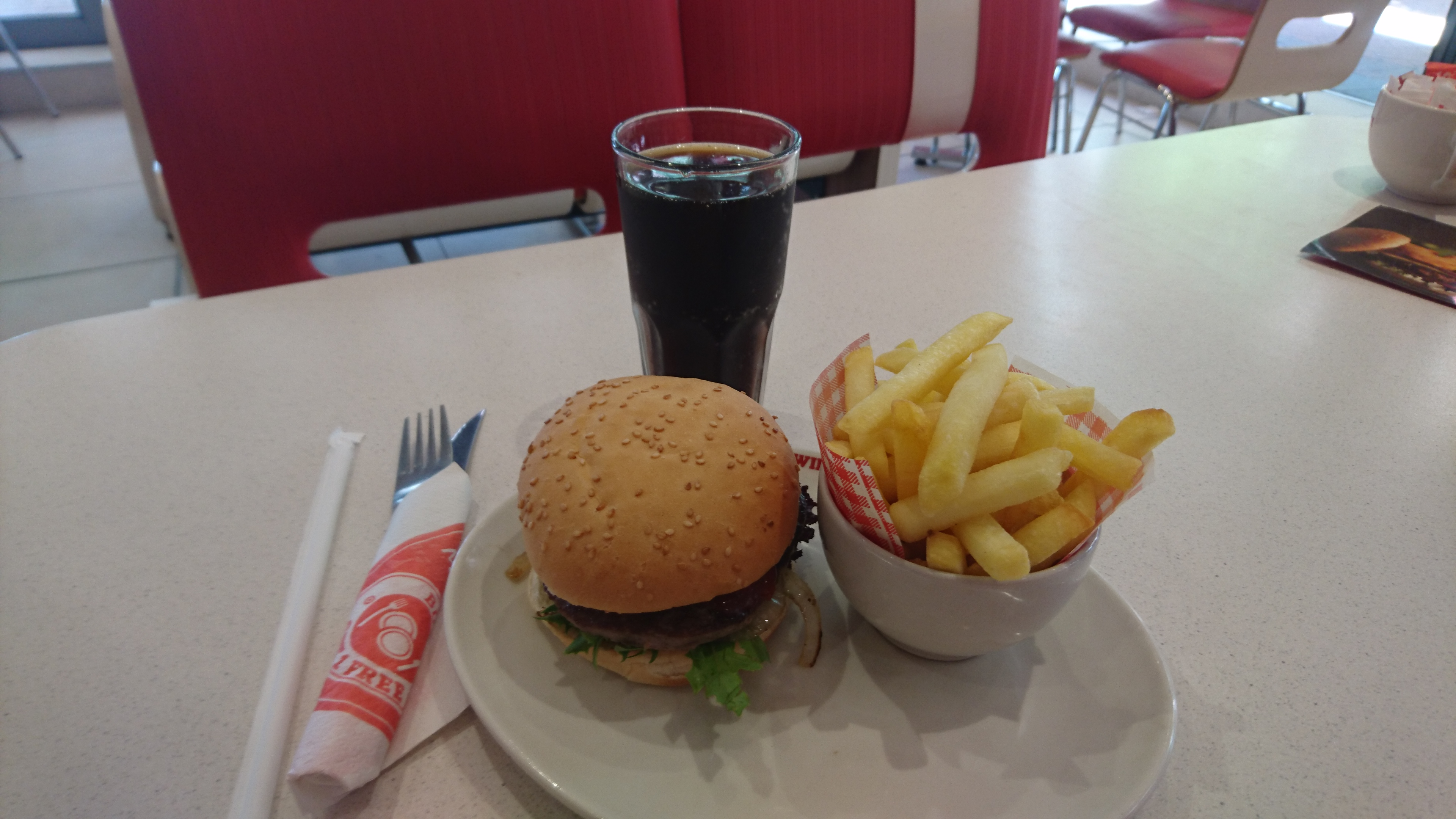 A typical Wimpy burger and chips with a beverage from the South African Wimpy.